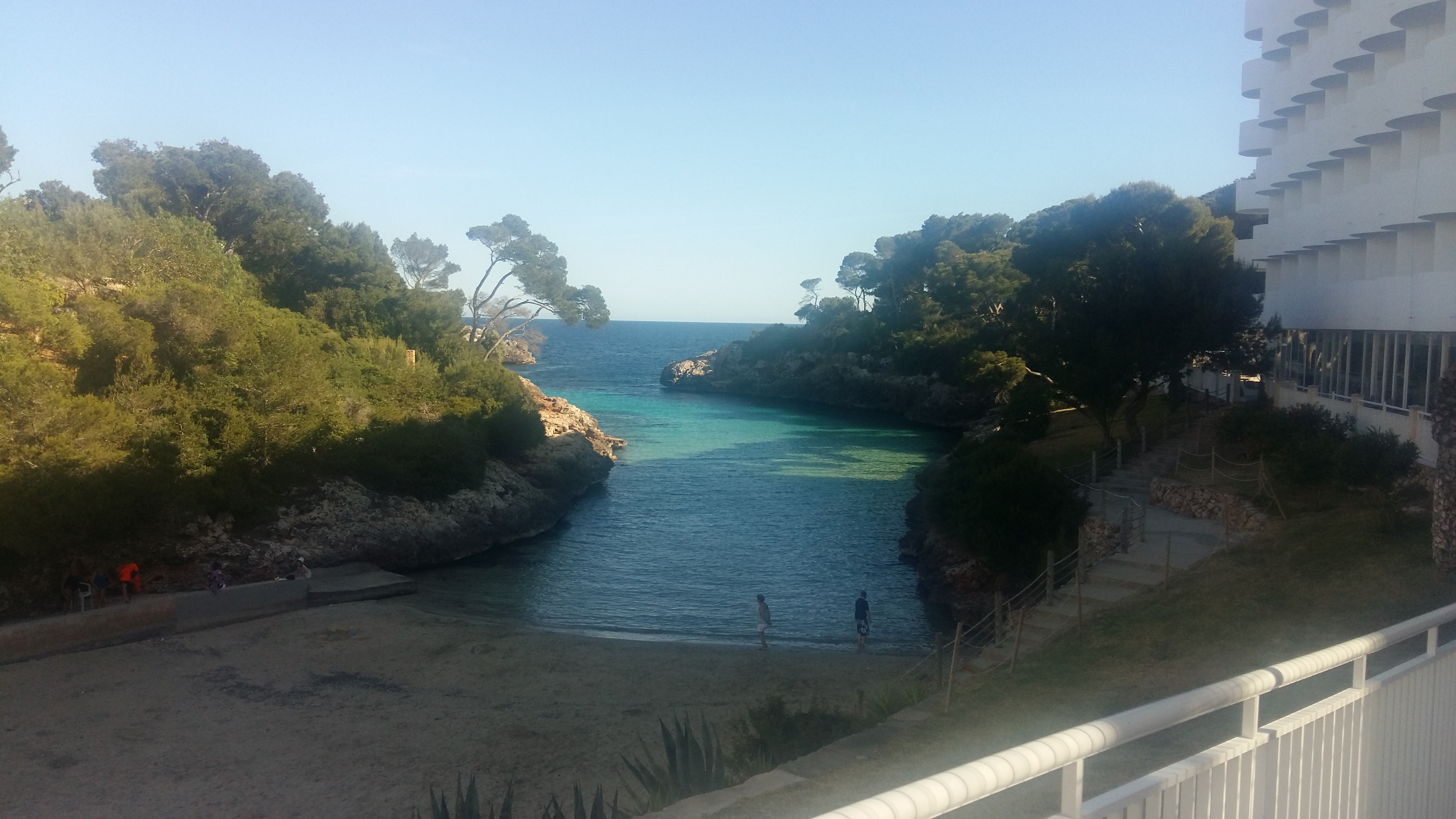 View into Cala Egos-Bay